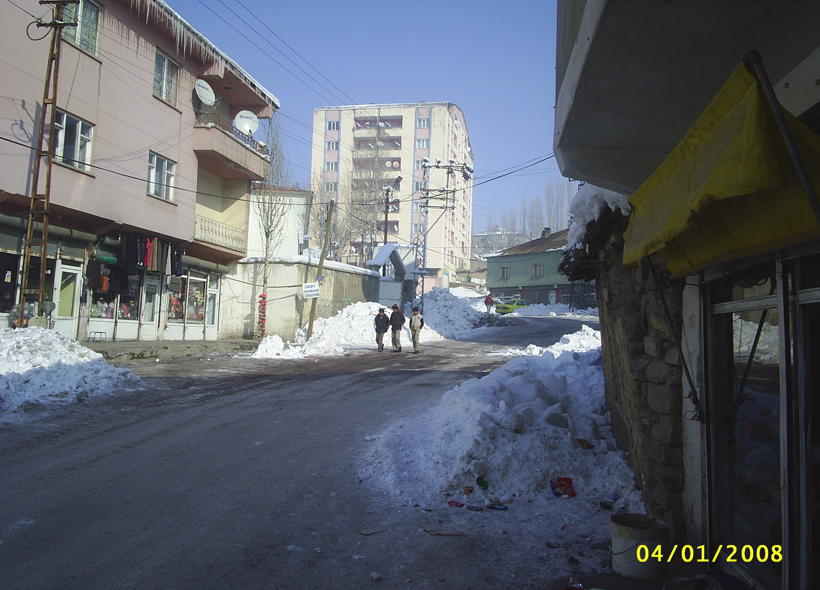 yüksekova türkiye